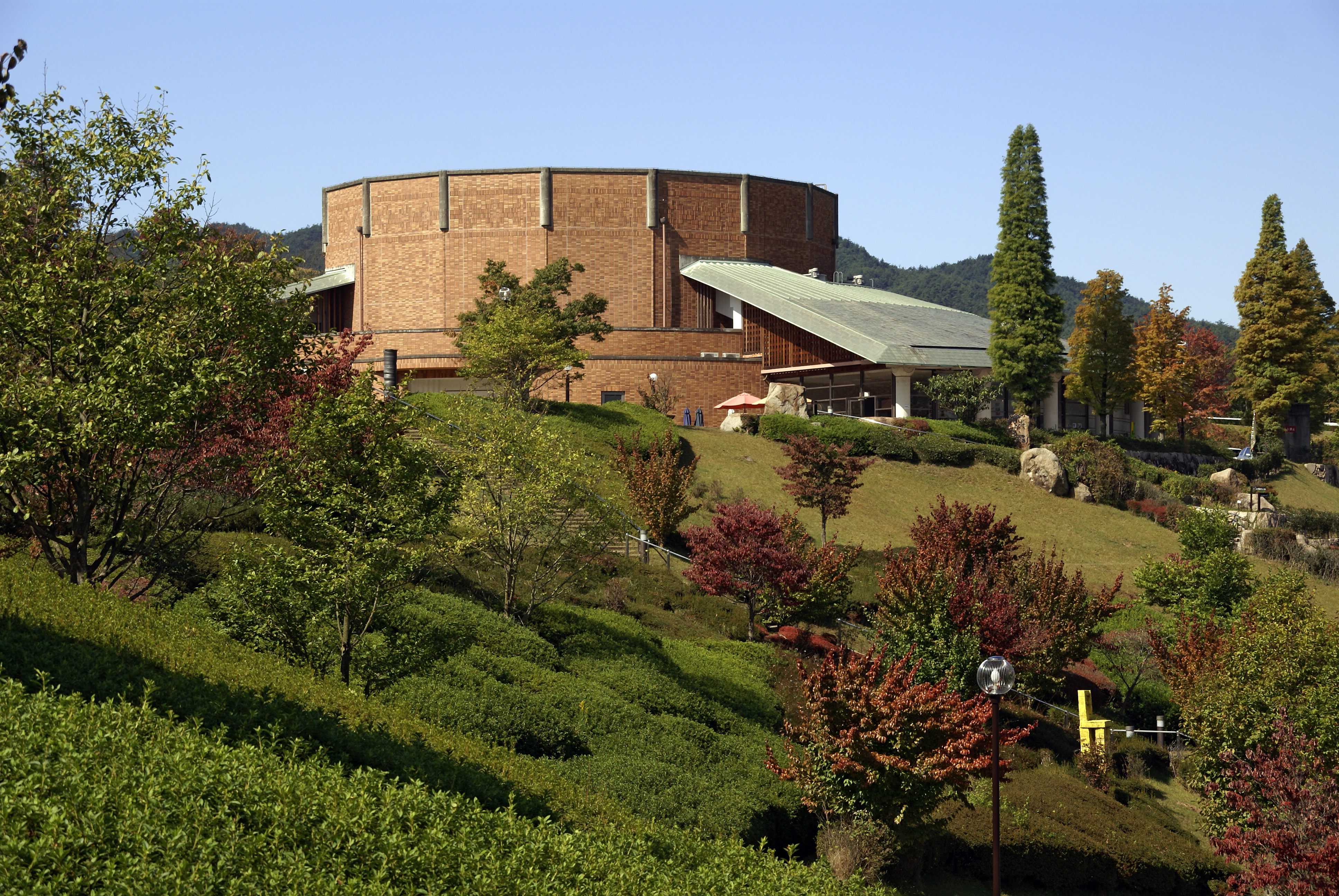 Shigaraki Ceramic Cultural Park in Koka, Shiga prefecture, Japan